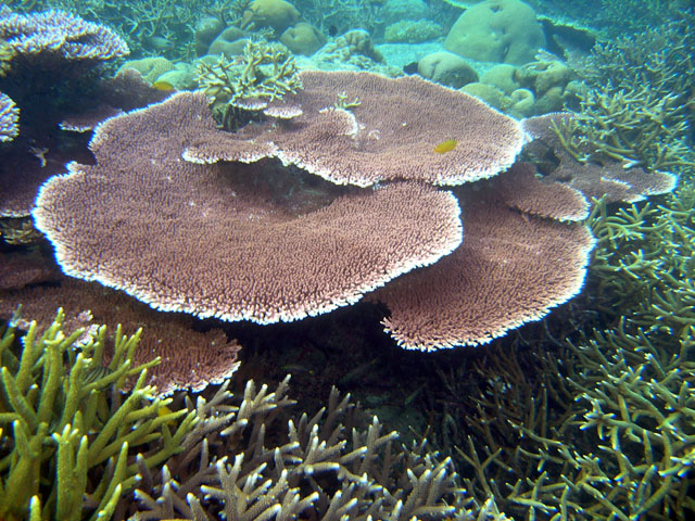 Staghorn coral (Acropora sp.), Pulau Tioman, West Malaysia